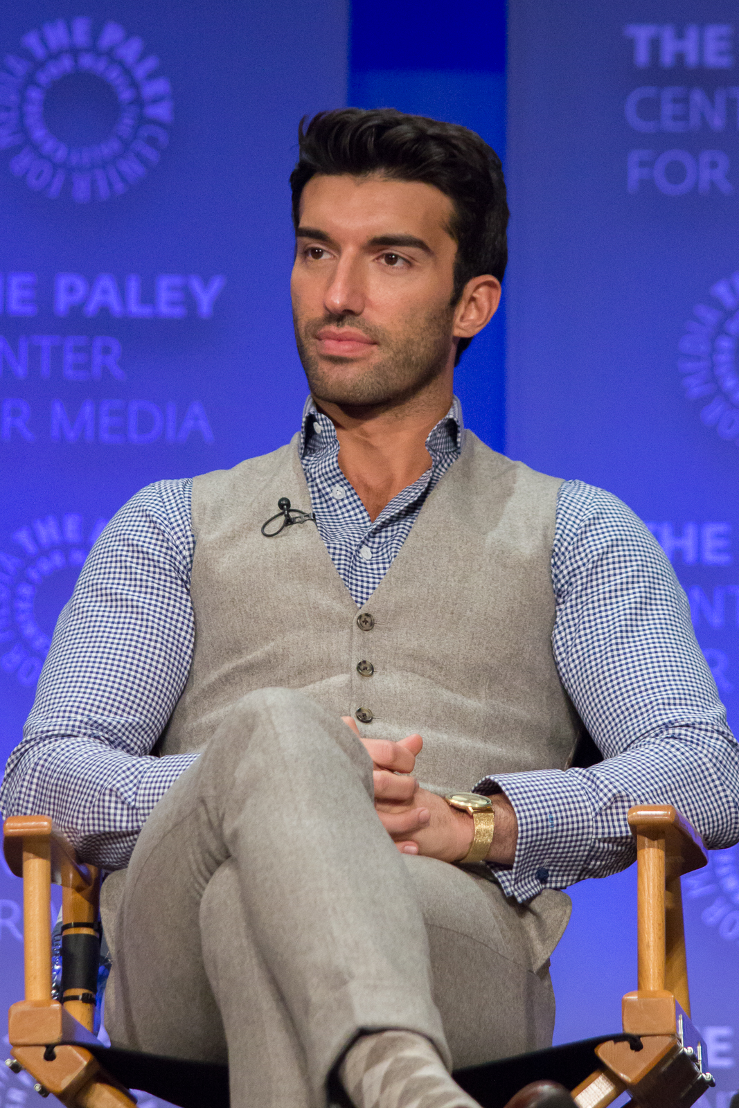 Actor Justin Baldoni at the 2015 PaleyFest presentation for the TV show "Jane the Virgin"